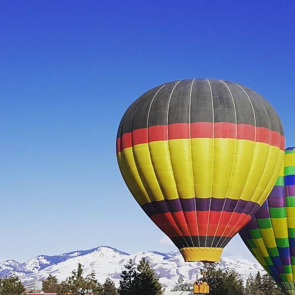 Flying a hot air balloon in Winthrop just East of Seattle Washington. This is Eliav Cohen flying for Seattle Ballooning.